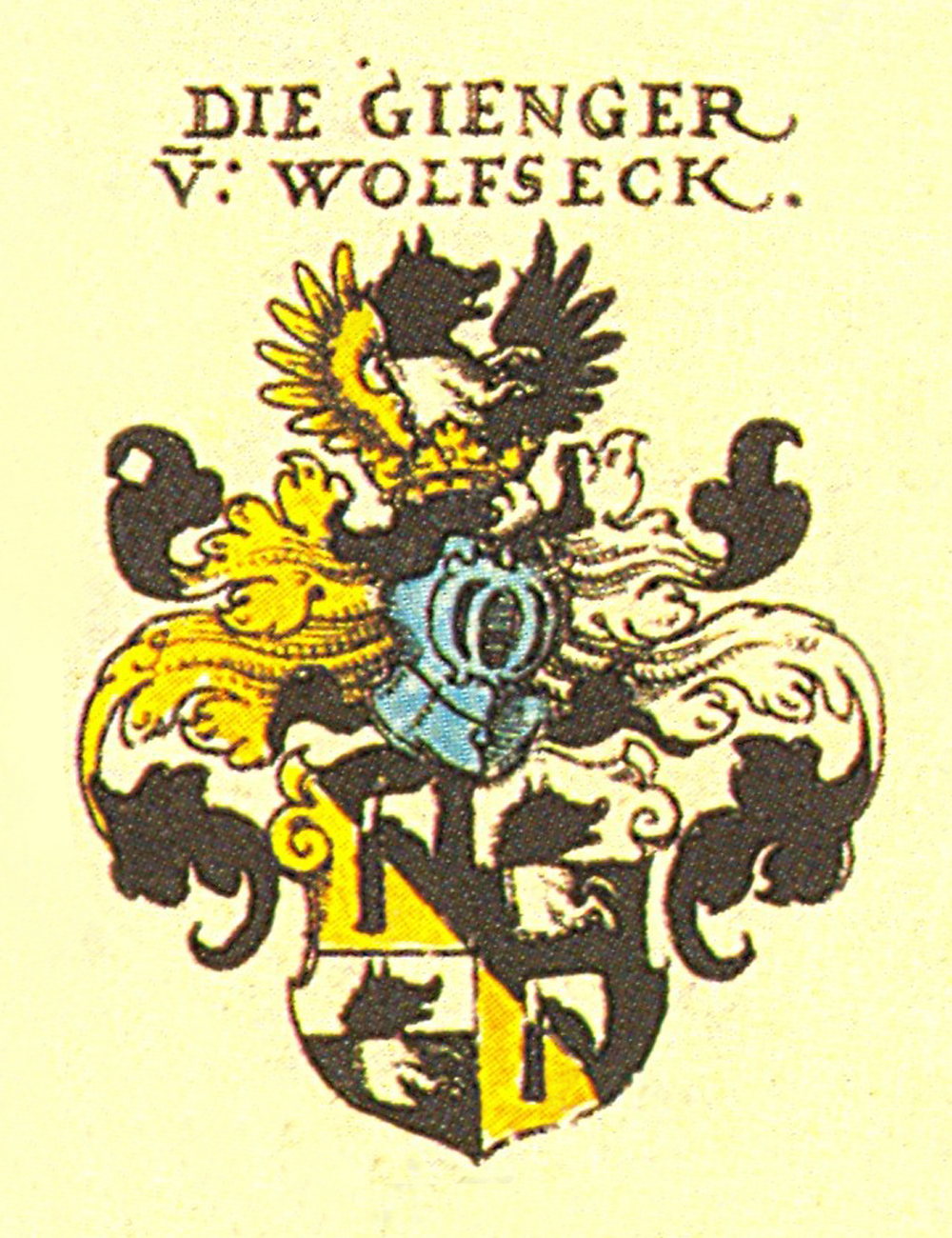 Coats of Arms of Gienger von Wolfsegg